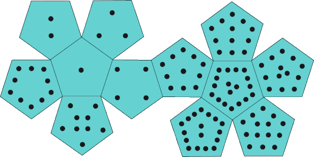 nontransitive dodecahedron D VI